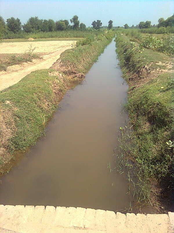 a water channel in village